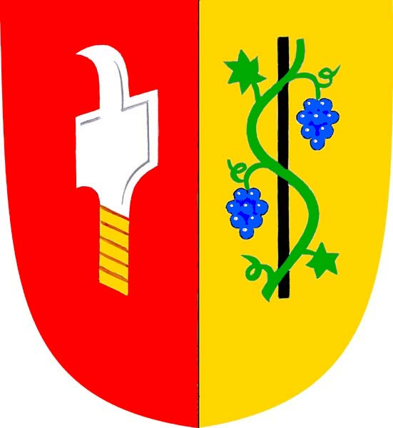 Municipal coat of arms of Vlčnov village, Uherské Hradiště District, Czech Republic.